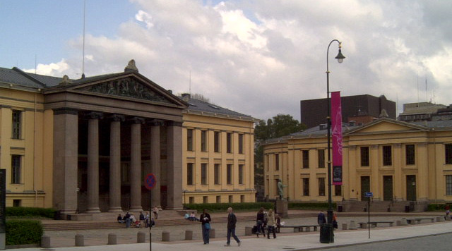 University of Oslo, the faculty of law (Domus Media and Domus Academica).